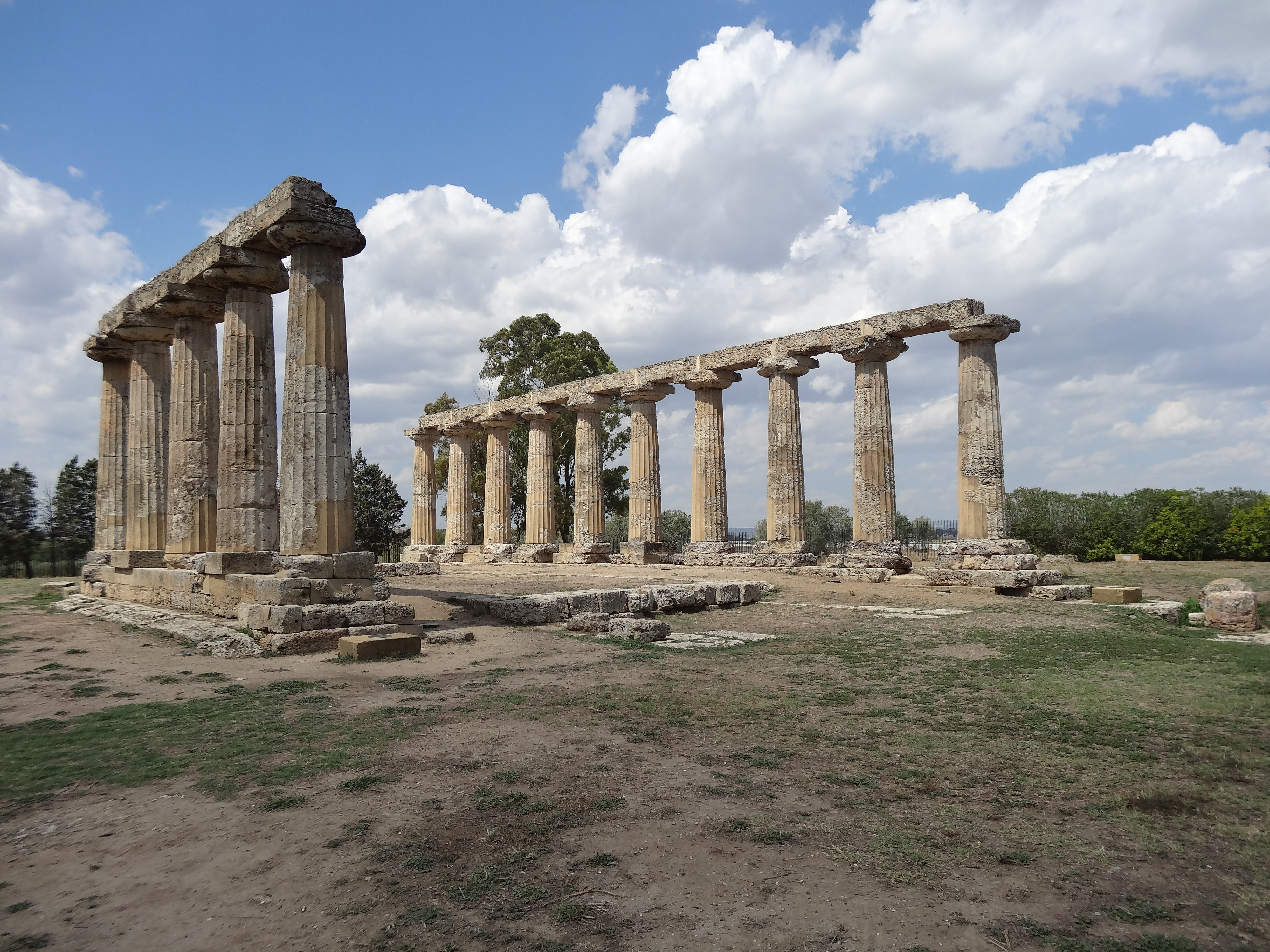 Metapontum